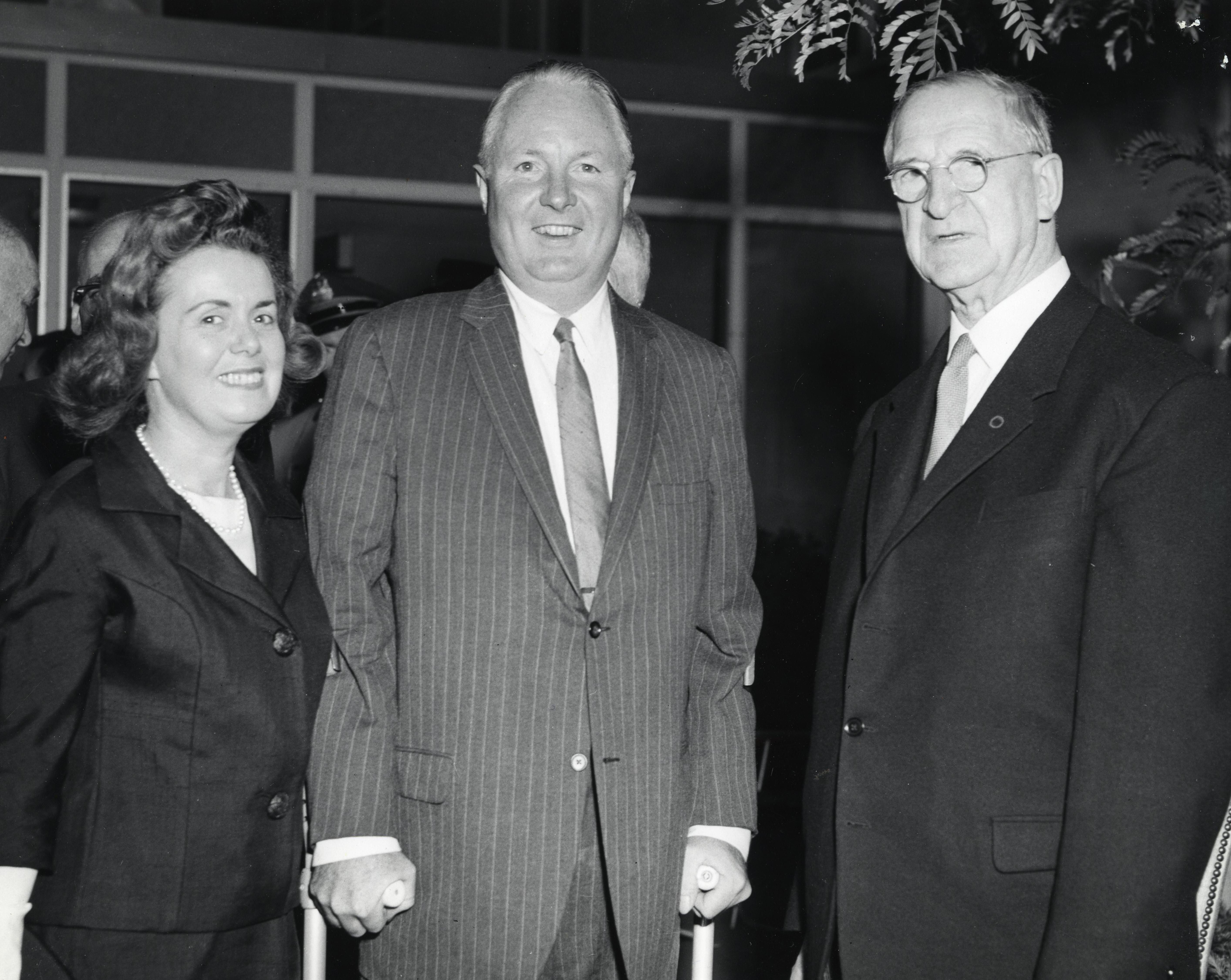 Title: Mary Collins, Mayor John F. Collins, and Eamon deValera, President of Ireland Creator: City of Boston Date: circa 1960-1968 Source: Mayor John F. Collins records, Collection #0244.001 File name: 244001_0021 Rights: Copyright City of Boston Citation: Mayor John F. Collins records, Collection #0244.001, City of Boston Archives, Boston